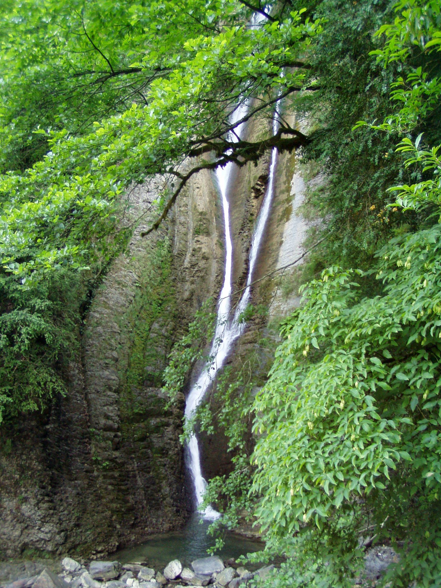 The Orekhivsky Waterfall in Sochi